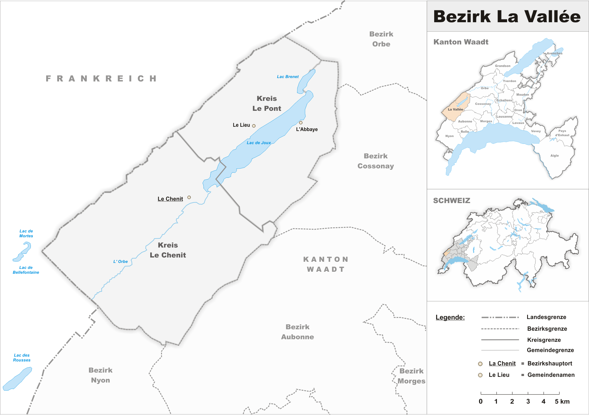 Municipalities in the district of La Vallée